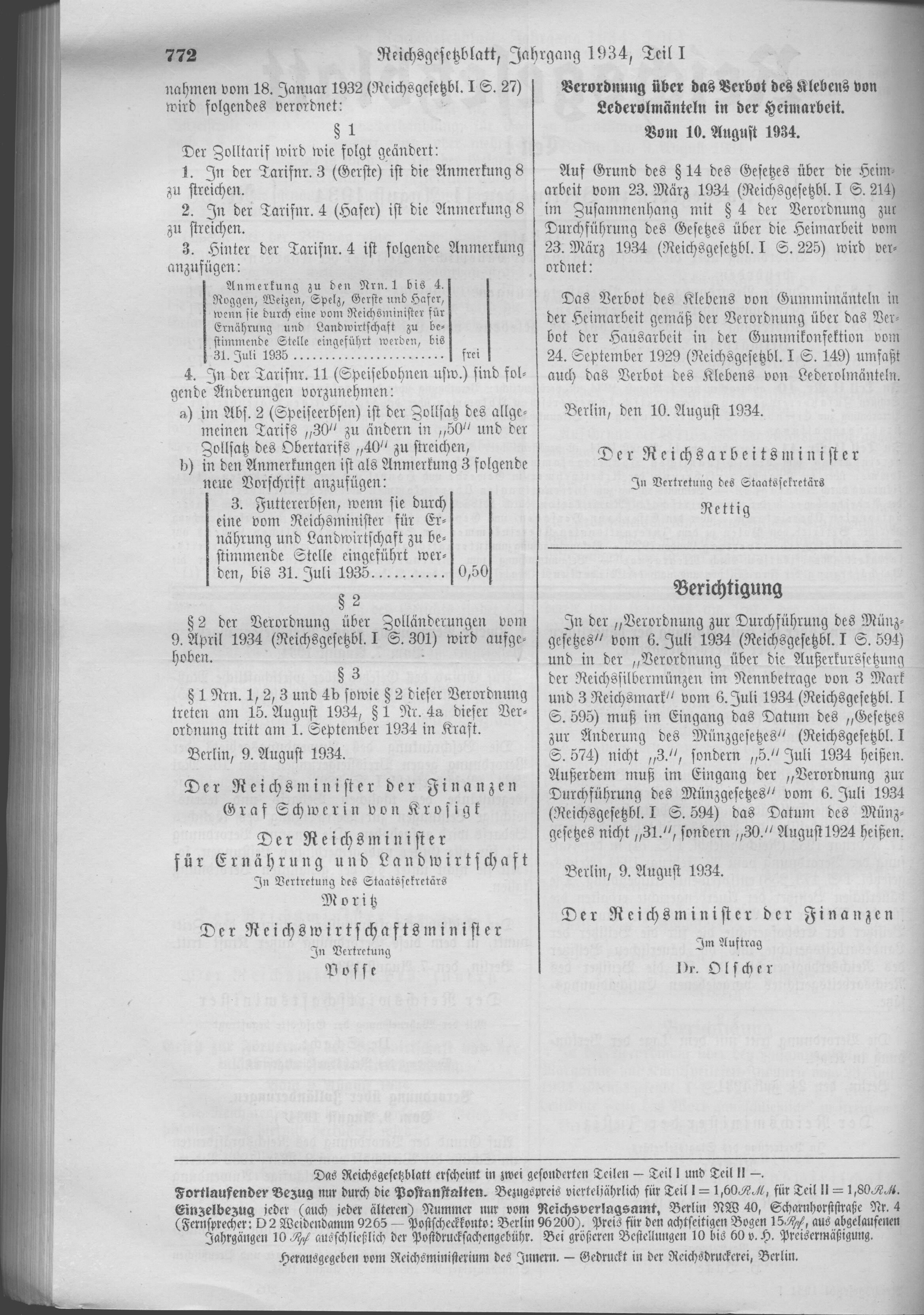 Scan from the Imperial Law Gazette of Germany, 1934, part 1